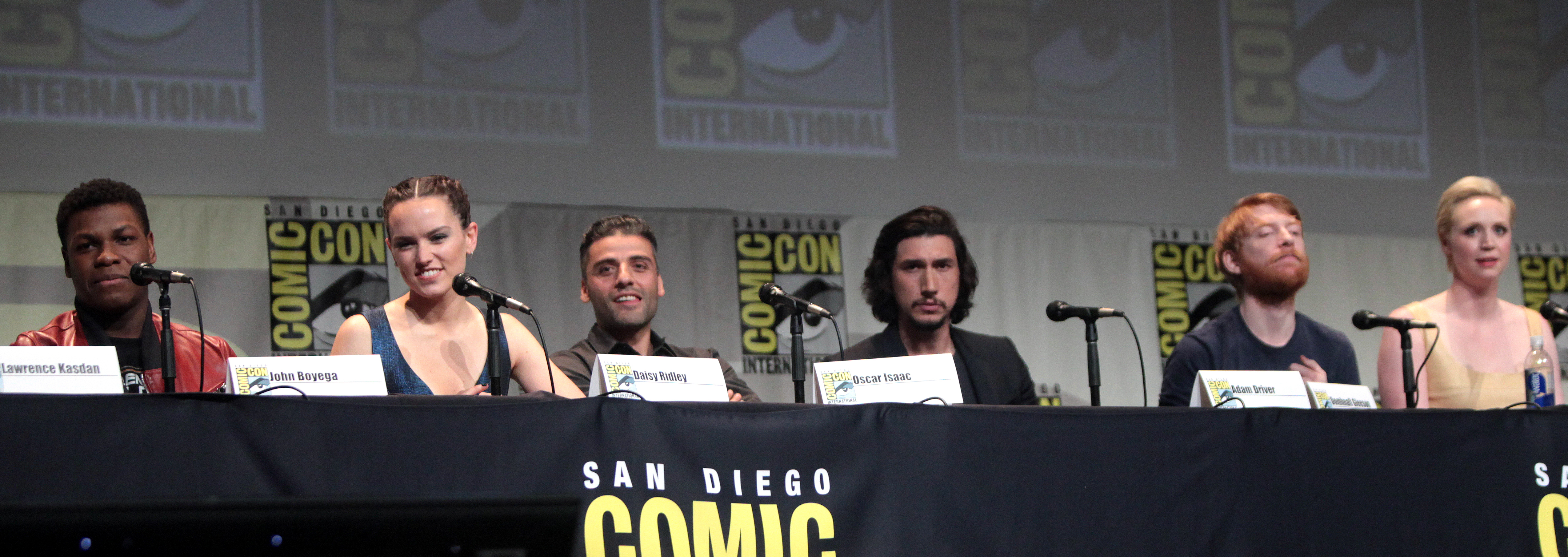 John Boyega, Daisy Ridley, Oscar Isaac, Adam Driver, Domhnall Gleeson and Gwendoline Christie speaking at the 2015 San Diego Comic Con International, for "Star Wars: The Force Awakens", at the San Diego Convention Center in San Diego, California.